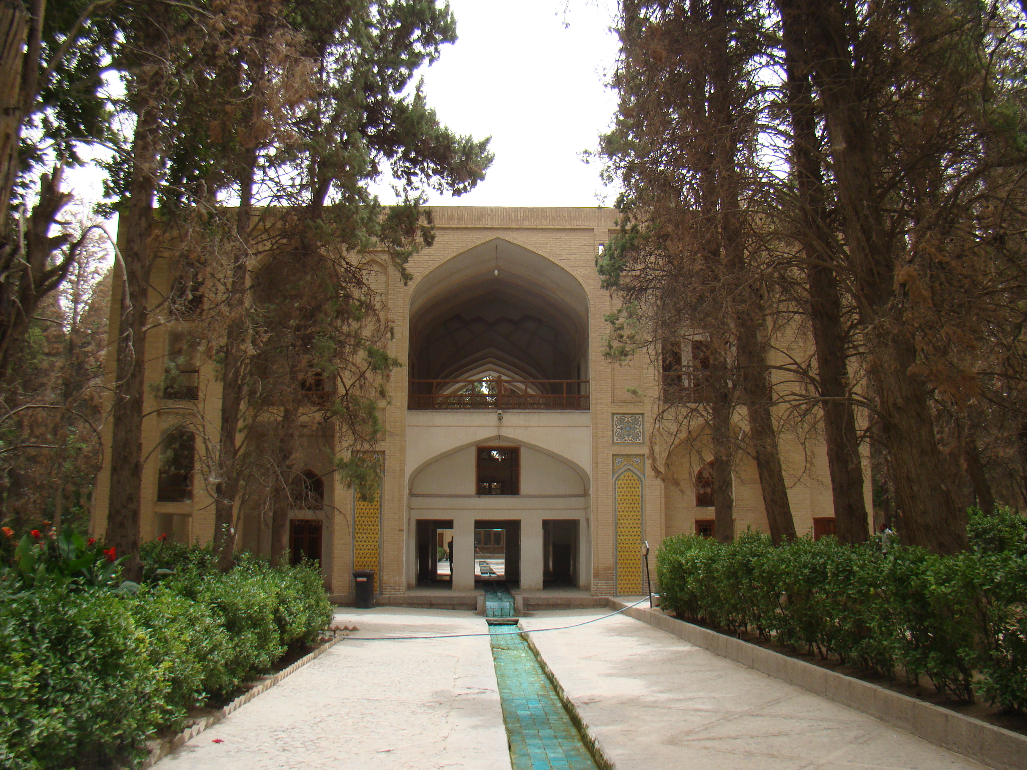 safavi Pergola (fin garden)